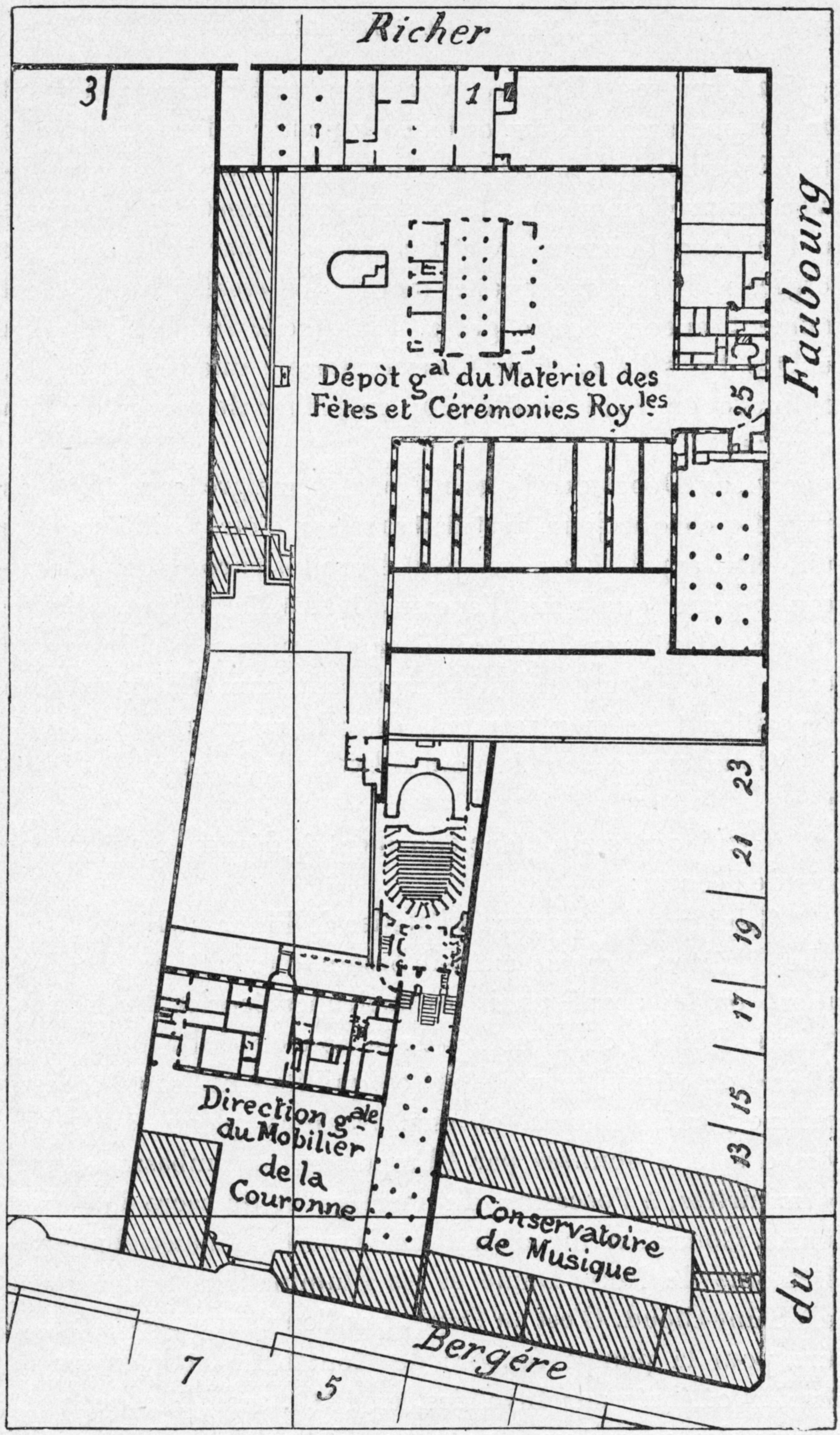 Site plan of the Menus-Plaisirs and the Paris Conservatory, also showing the location of Conservatory Concert Hall